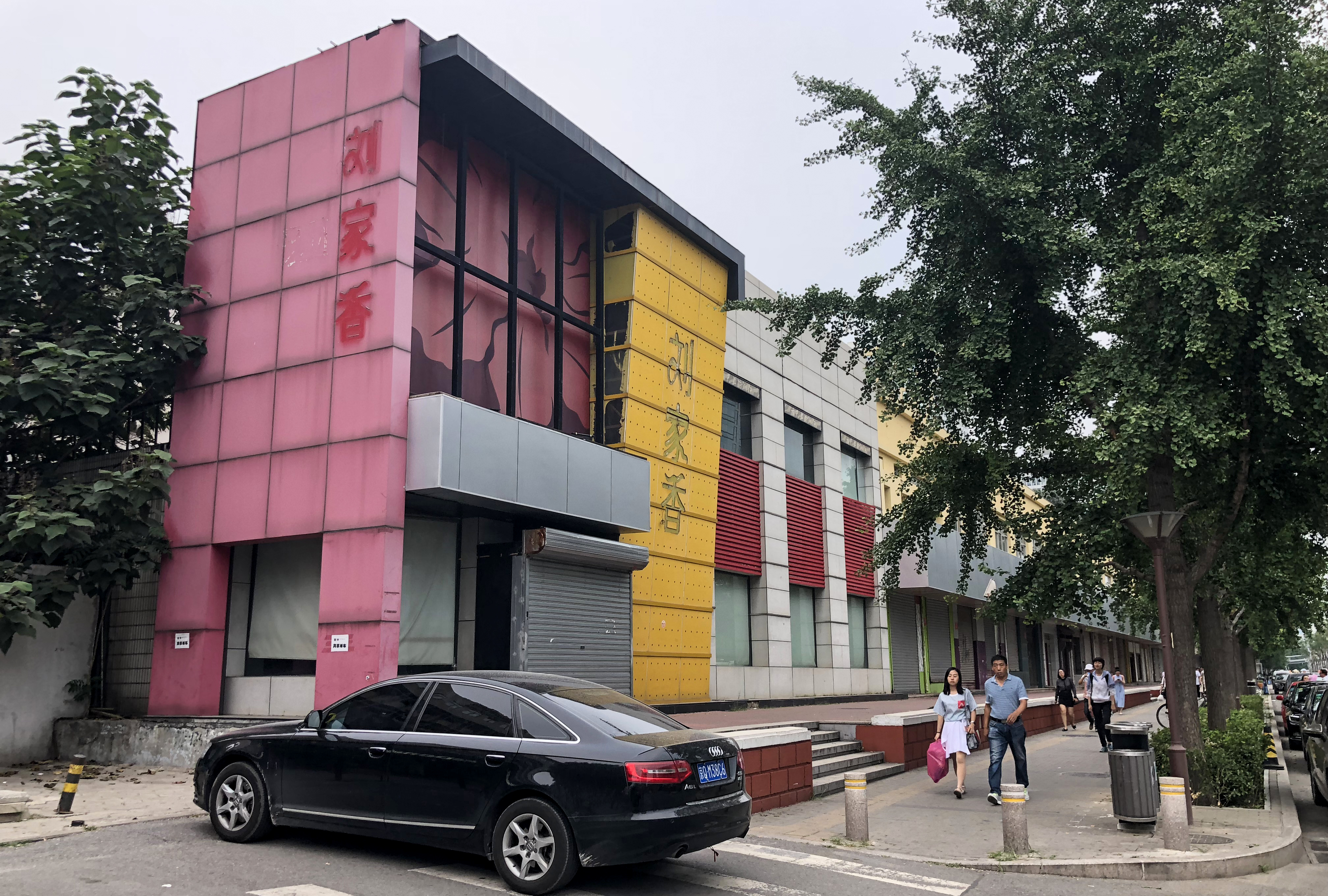 This defunct restaurant, according to some reports, was the site of former InfoHighway promotional hall.